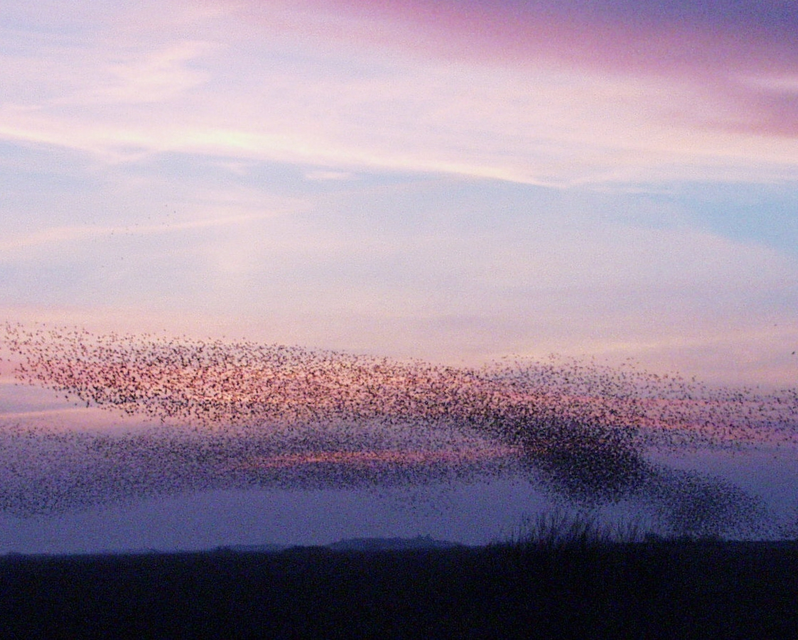 Starlings forming fascinating formations over Tøndermarsken, south-west Jutland, Denmark. Image from Material is in Public Domain.